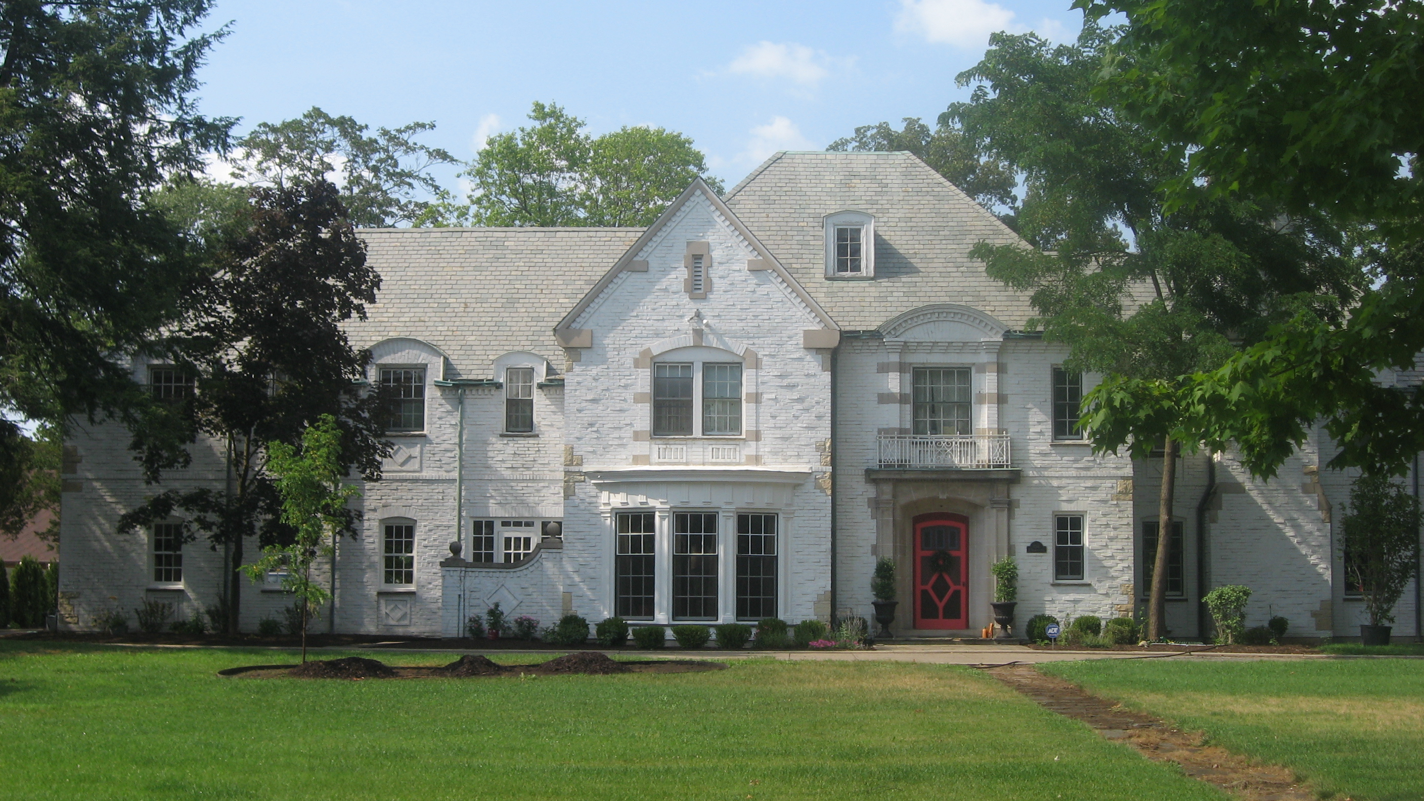 Front of the Floyd C. Best House, located at 116 E. Beardsley Avenue in Elkhart, Indiana, United States. Built in 1941, it is part of the Beardsley Avenue Historic District, a-listed historic district that is listed in the National Register of Historic Places.